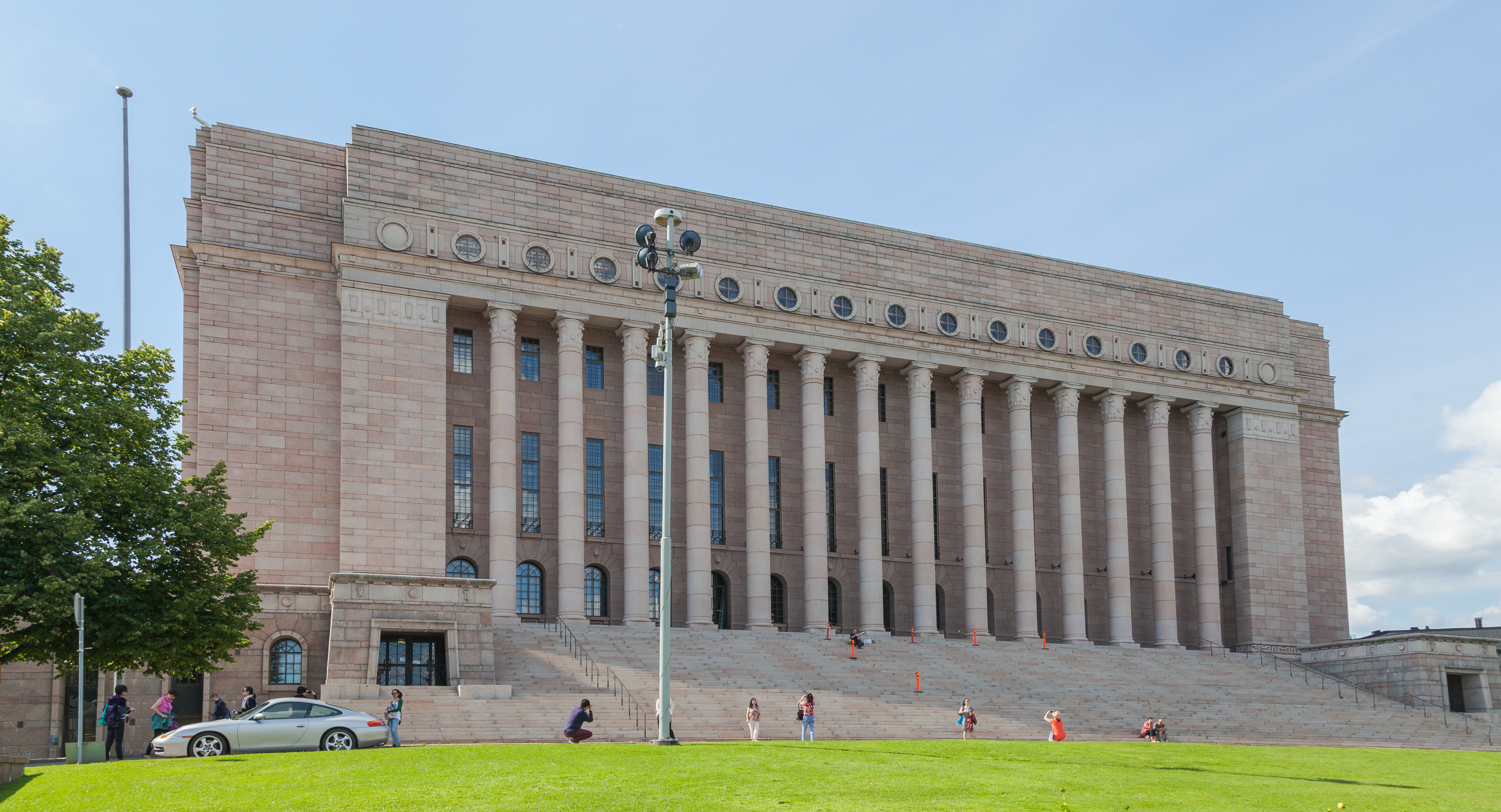 Parliament House, Helsinki, Finnland